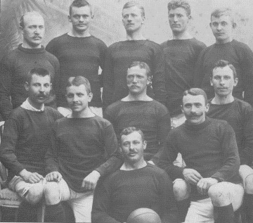 The Frem team that won the 1901-1902 football championship. Standing from the left: Møller Sørensen, Stefan Rasmussen, Carl Mertins, Victor Vilager, Peter Møller. Sitting: Otto Andersen, Chr. Henriksen, Axel Byrval, Holger Nielsen (with the ball), Peter Mikkelsen og Valdemar Petersen.